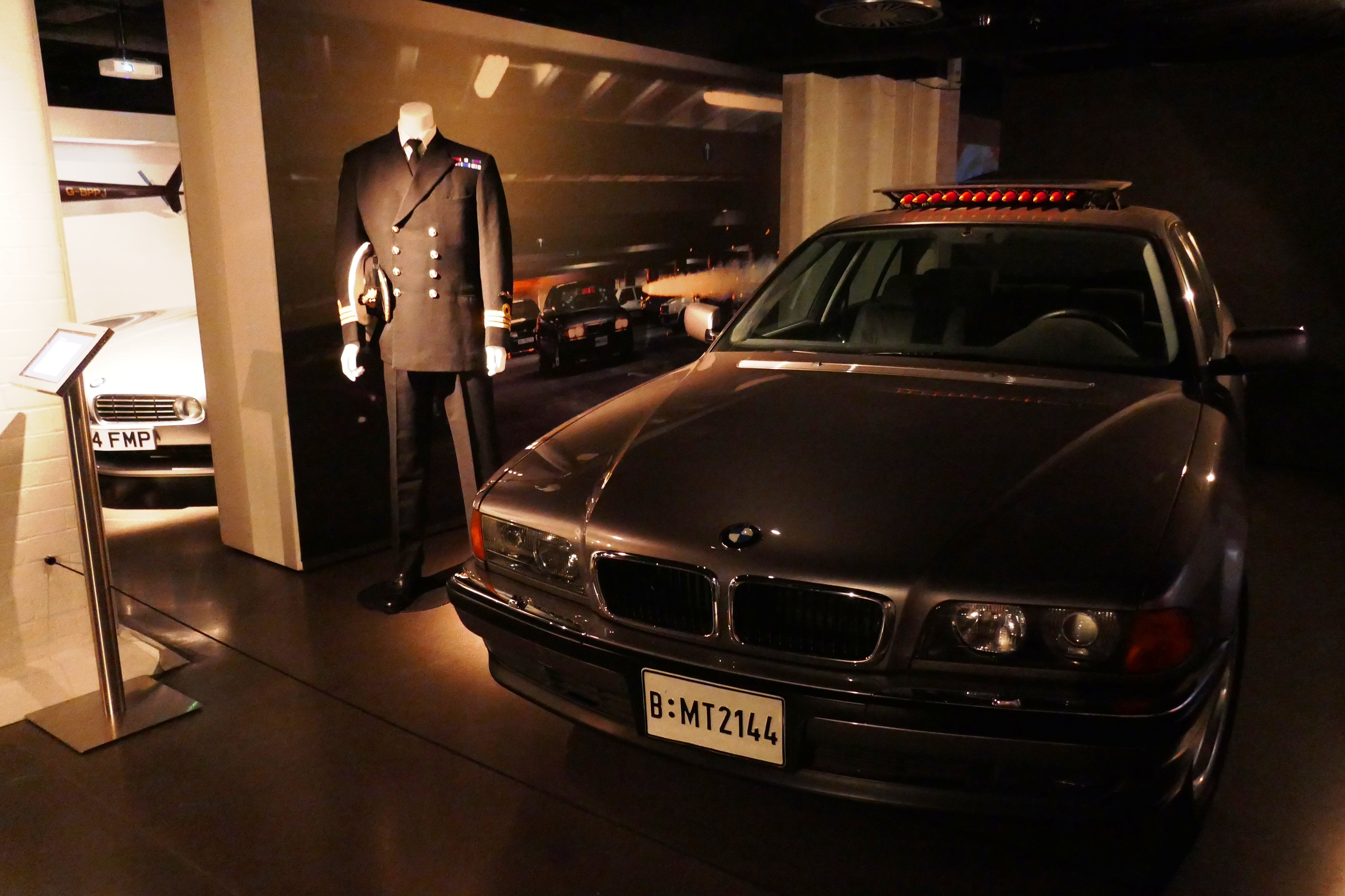 BMW 750iL from the movie "Tomorrow Never Dies" National Film Museum, London - Bond in Motion Exhibition (2017)